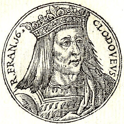 Clovis IV, son of Theuderic III, was the sole king of the Franks from 691 until his death.